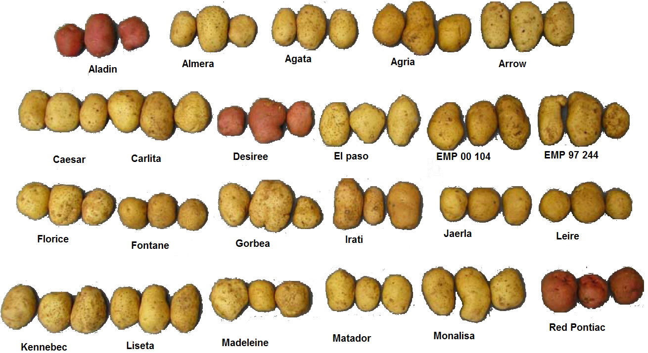 Samples of several varieties of potatoes, photographed at cultivation fields.